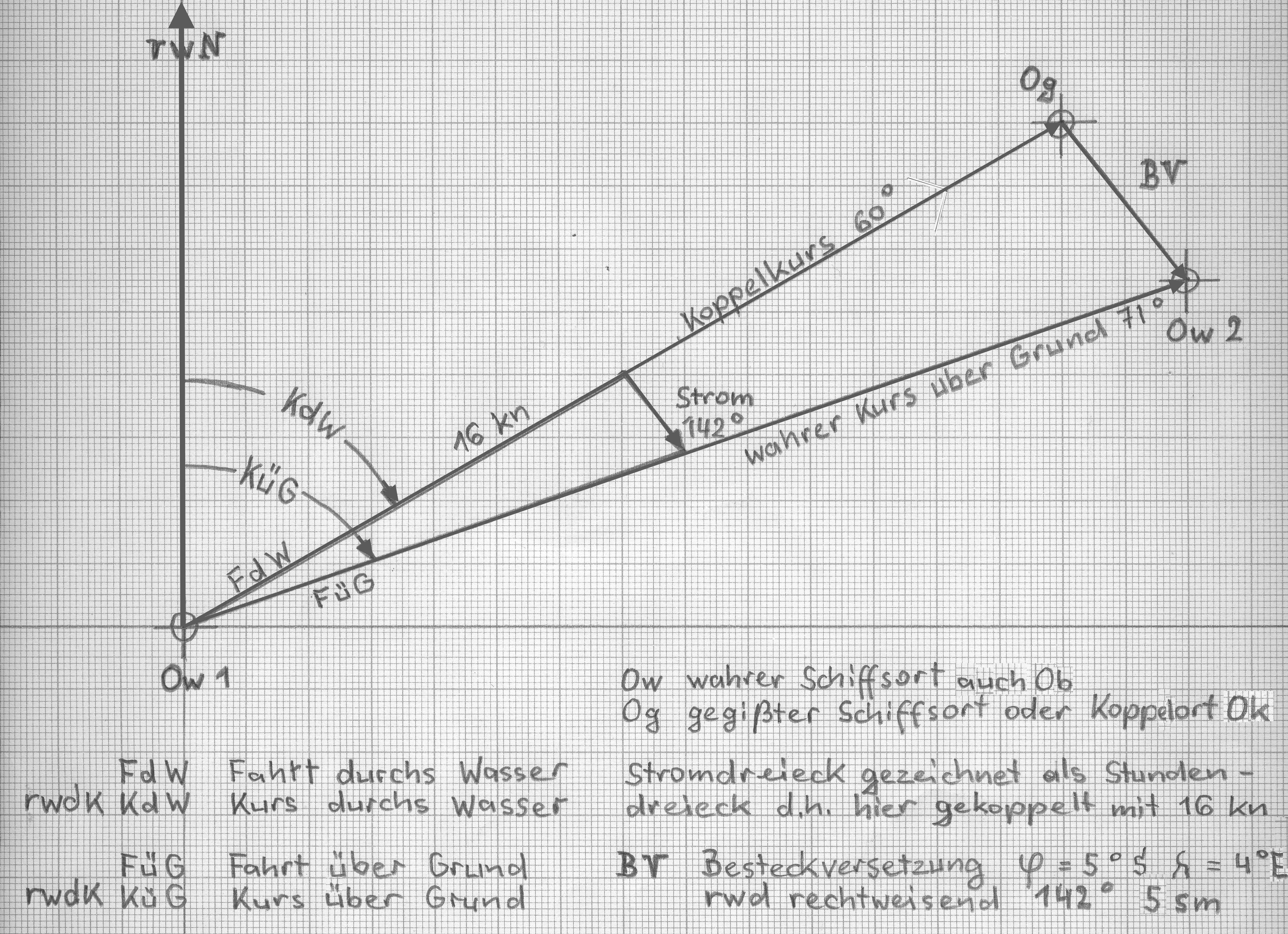 graphic representation of a drifting at sea